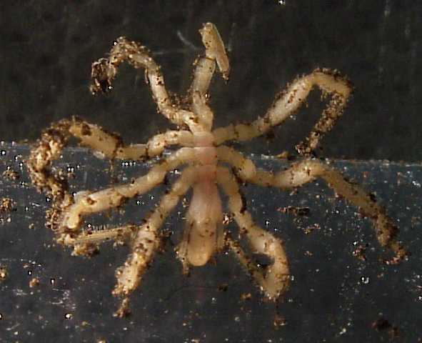 Vent sea spider - Locality: Axial Seamount